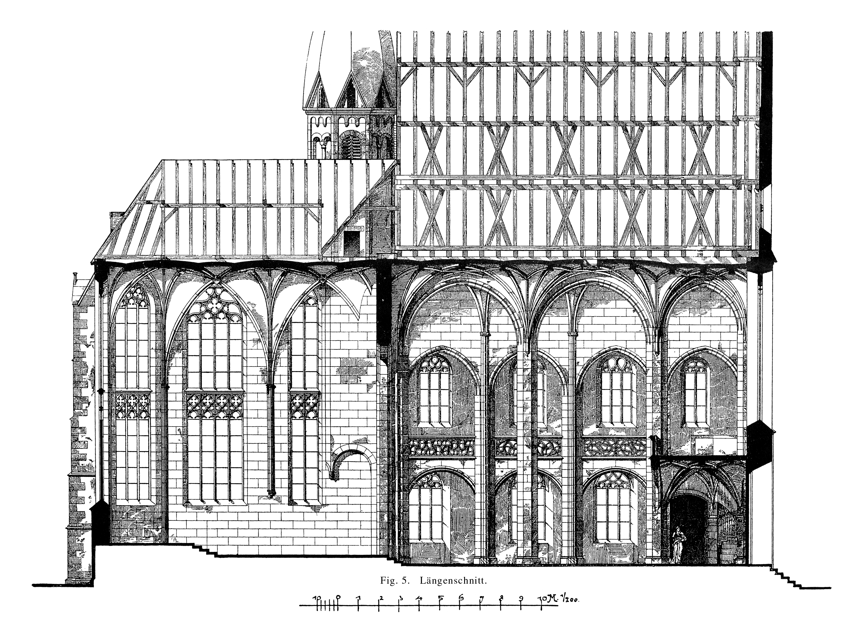 Frankfurt on the Main: Leonhardskirche (Leonard's church), longitudinal section